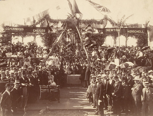 P3549-189 Photograph, mounted, laying the foundation stone of Perth Observatory, albumen print, photographed by Clarke and Sons, Perth, Western Australia, Australia, 29th September 1896, used by Sydney Observatory, Sydney, New South Wales, Australia, 1896-1979 (Front)